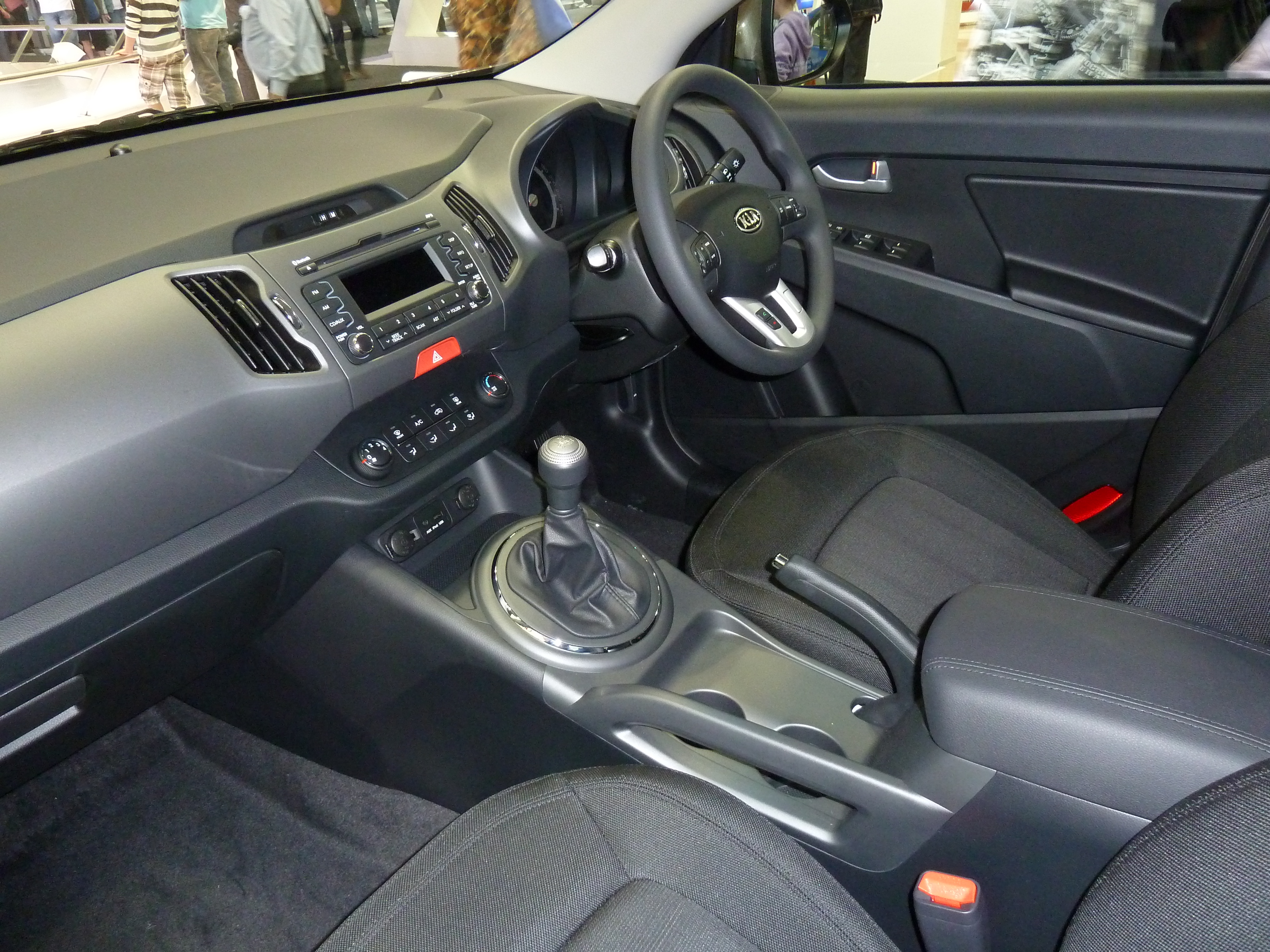 2010 Kia Sportage (SL) Si wagon. Photographed at the 2010 Australian International Motor Show, Sydney, New South Wales, Australia.